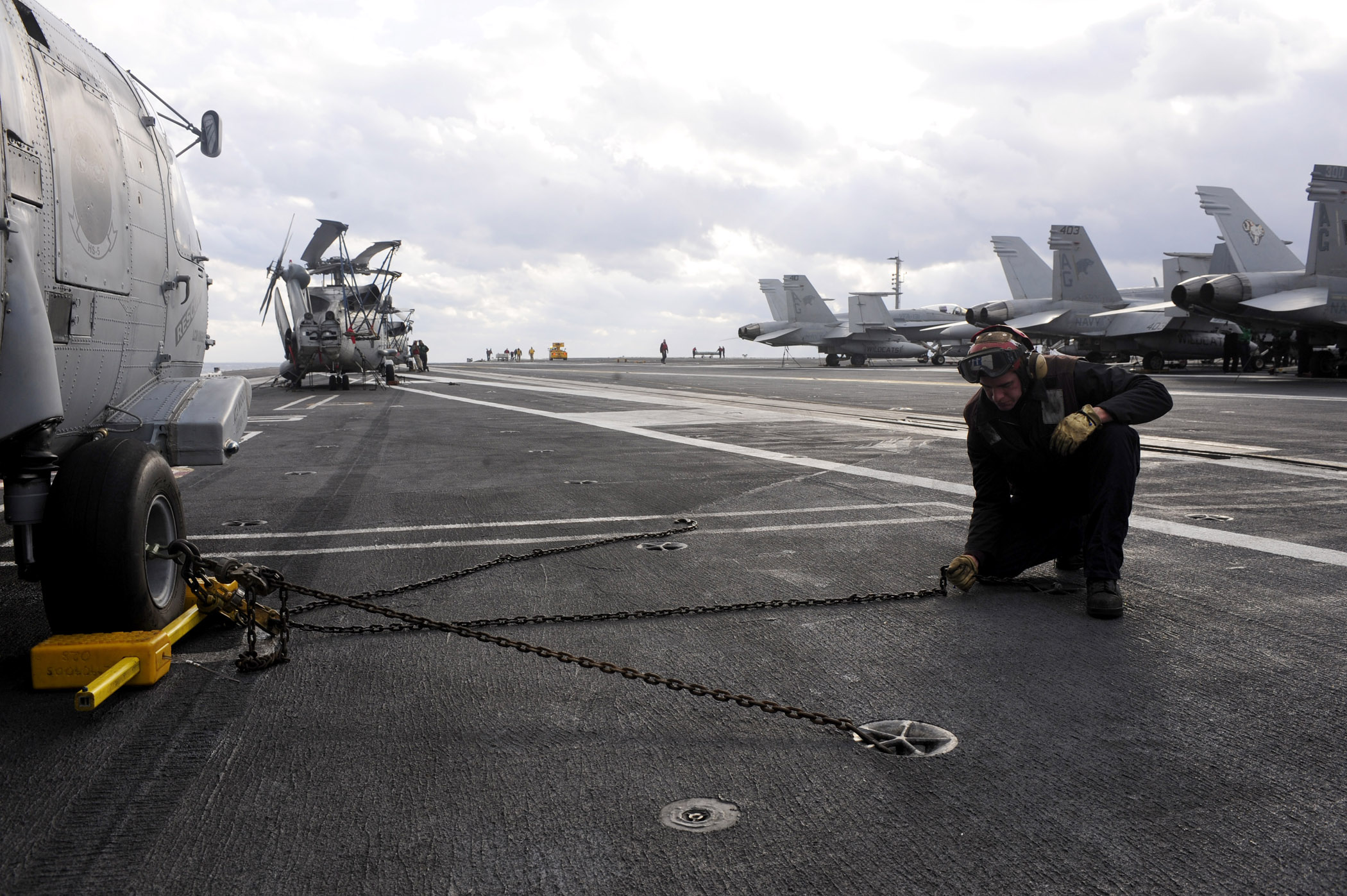 ATLANTIC OCEAN (Jan. 5, 2010) Aviation Machinist's Mate Airman John Wagner connects a tiedown chain to a padeye on the flight deck of the aircraft carrier USS Dwight D. Eisenhower (CVN 69). Dwight D. Eisenhower is on a six-month deployment as a part of the on-going rotation of forward-deployed forces to support maritime security operations.